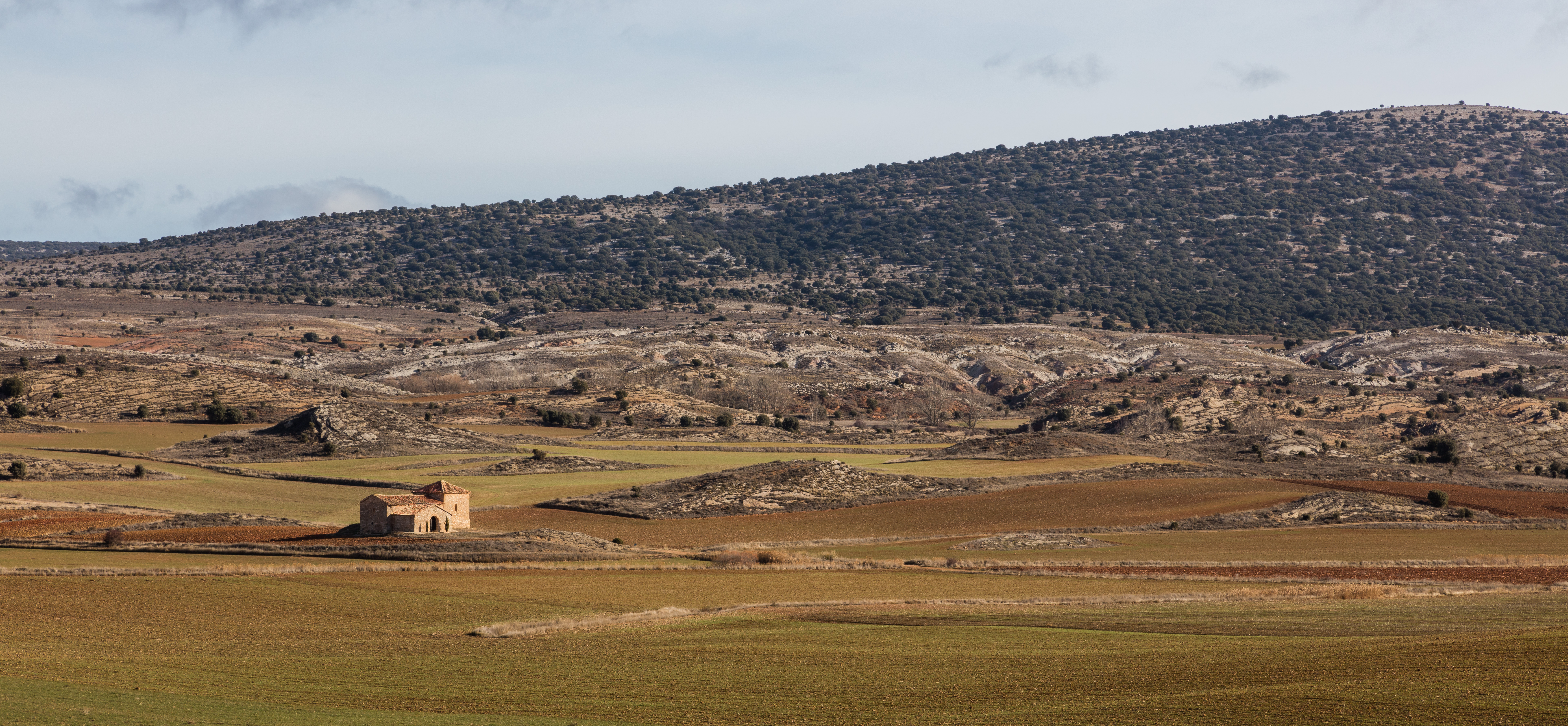 Hermitage of the Lady of Mencalilla embedded in a typical winter landscape in the center of Spain, more precisely near Almazul, a tiny village in the Province of Soria, Castile and León.